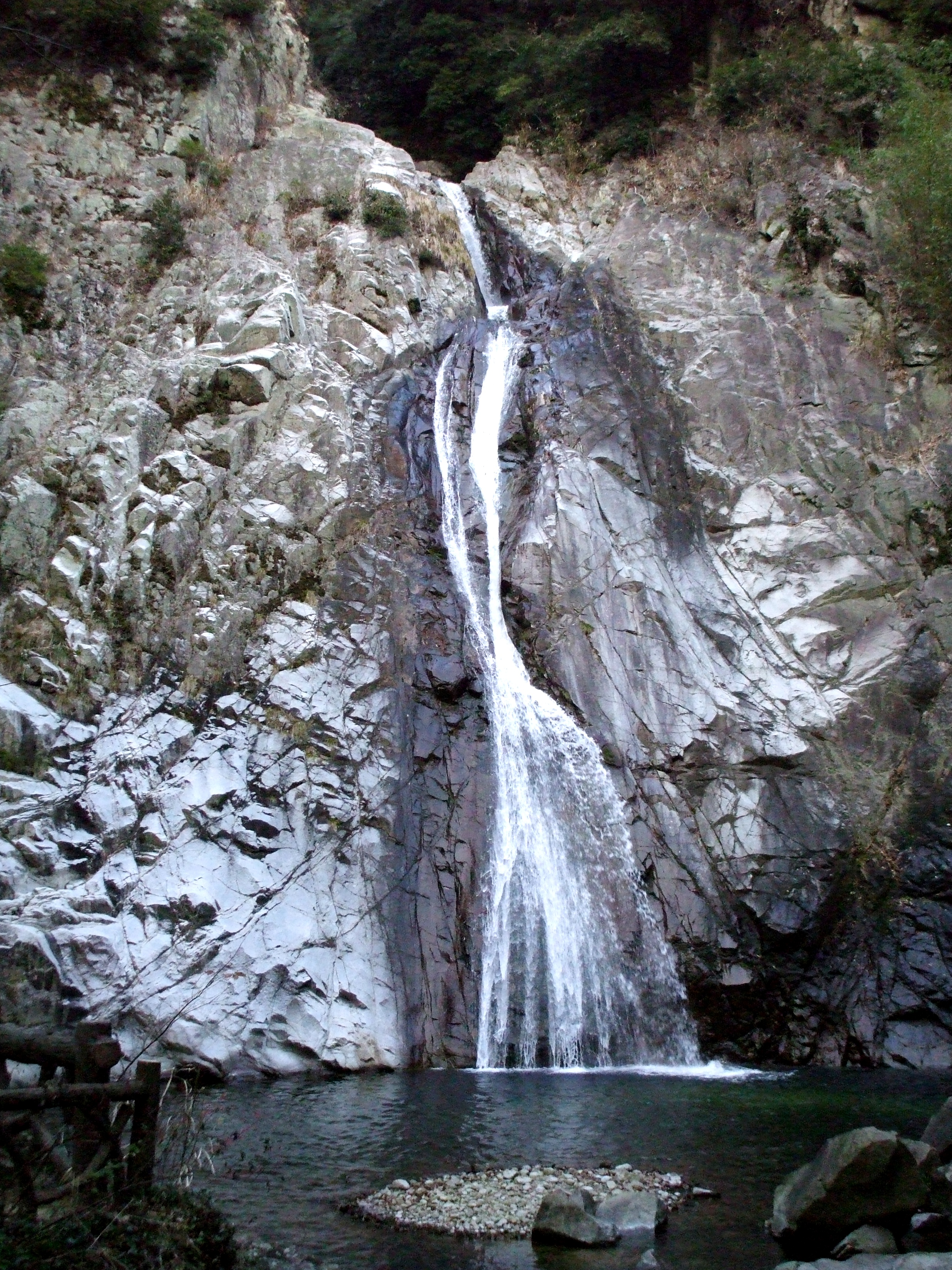 Otaki Waterfall of Nunobiki Waterfalls in Kobe, Hyōgo, Japan.